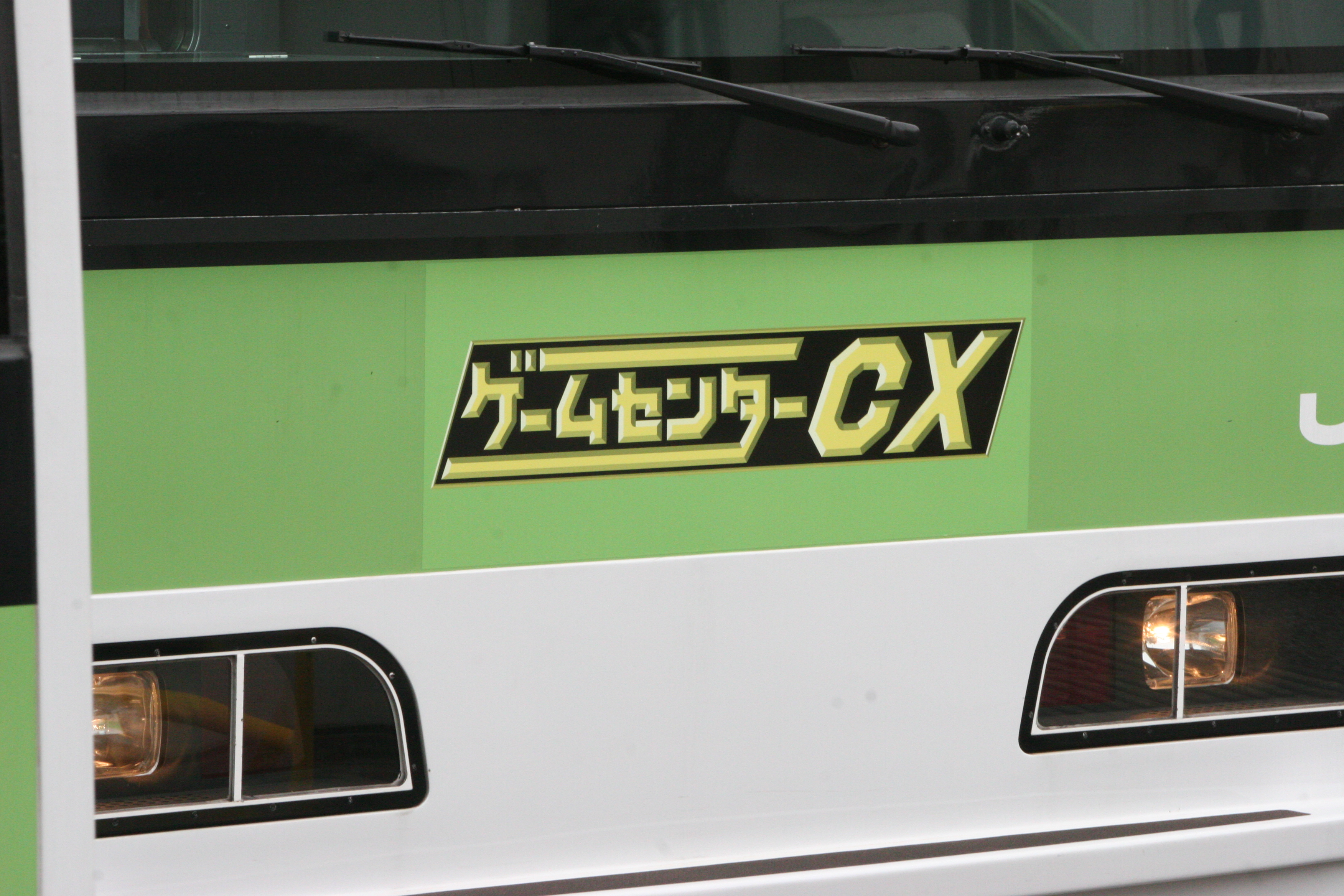 Advertisement campaign train of TV program "Game Center CX" (Train 541 of Yamanote Line, JR East E231-500)